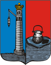 Kronstadt (St. Petersburg), coat of arms (1780)